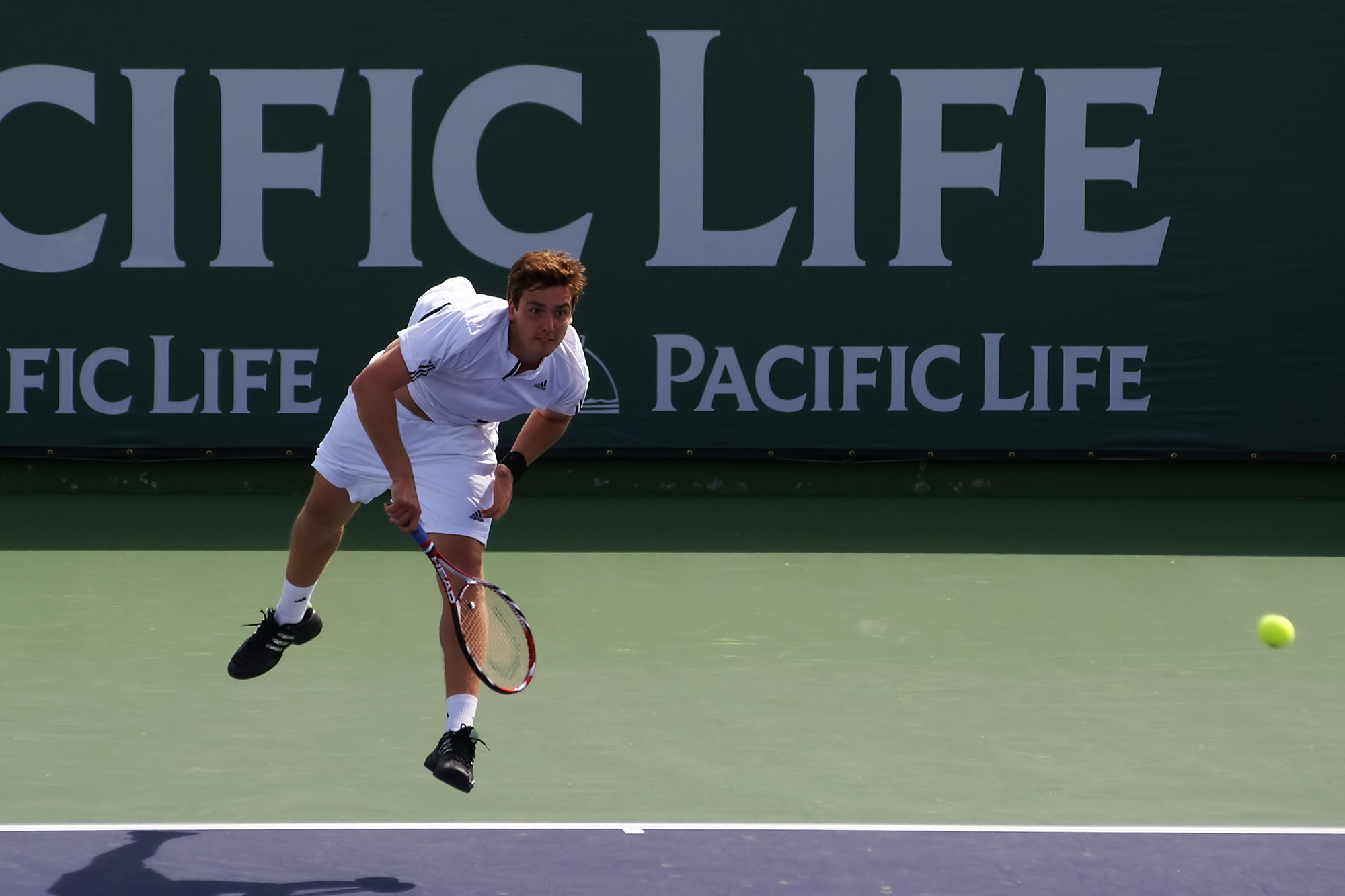 Ernests Gulbis serving a 135 mph ace to David Nalbandian at the second round of the 2008 Pacific Life Open.